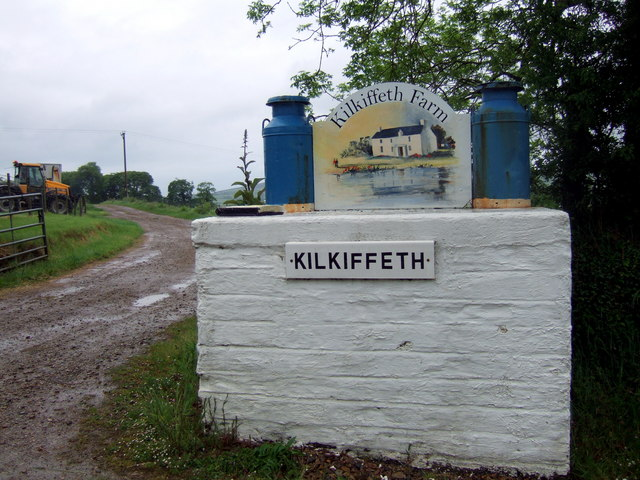 Kilkiffeth Farm entrance. The old milk churn stand has been nicely utilised for the benefit of visitors who can camp here. Kilkiffeth is the English spelling of a very old and important mansion about which the local historian Richard Fenton wrote in 1811: "Cilyceithed, the ancient residence of David Ddu, of the Black (whose descendants for centuries were the first men in that county), falling among three co-heiresses in the time of Charles I, was deserted for the seats of the gentlemen on whom they had bestowed their lands and fortune. The possessors of this house were the kings of the mountains and stretched their sway far and wide. Their mansion, as the tradition is, as every way commensurate with their extensive property, command and hospitality; and though at the removal of the heiresses, the fabric was suffered to be dilapidated; amongst the ruins, from time to time, have been discovered much cut stone, vaults, and other relics indicatory of a style of magnificence not common in this country at that period." – The old dwelling has been replaced by a working farm, itself C17, but there are still a few signs the former grandeur remaining.